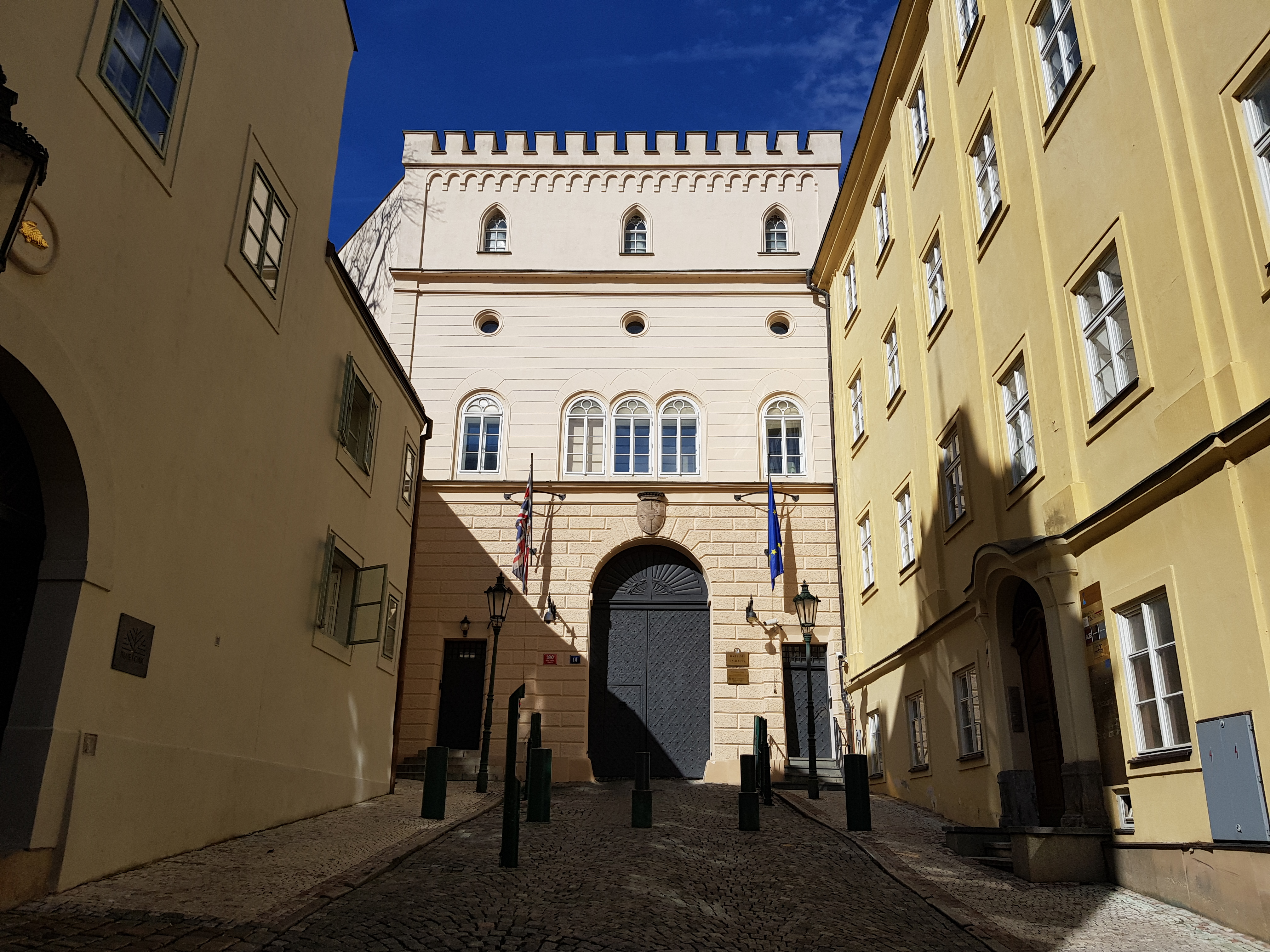 Thun Palace in Prague - Little Quarter, nowadays the British Embassy